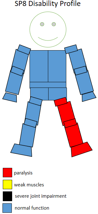 Shows F8 SP8 disability sports profile. Created using information from